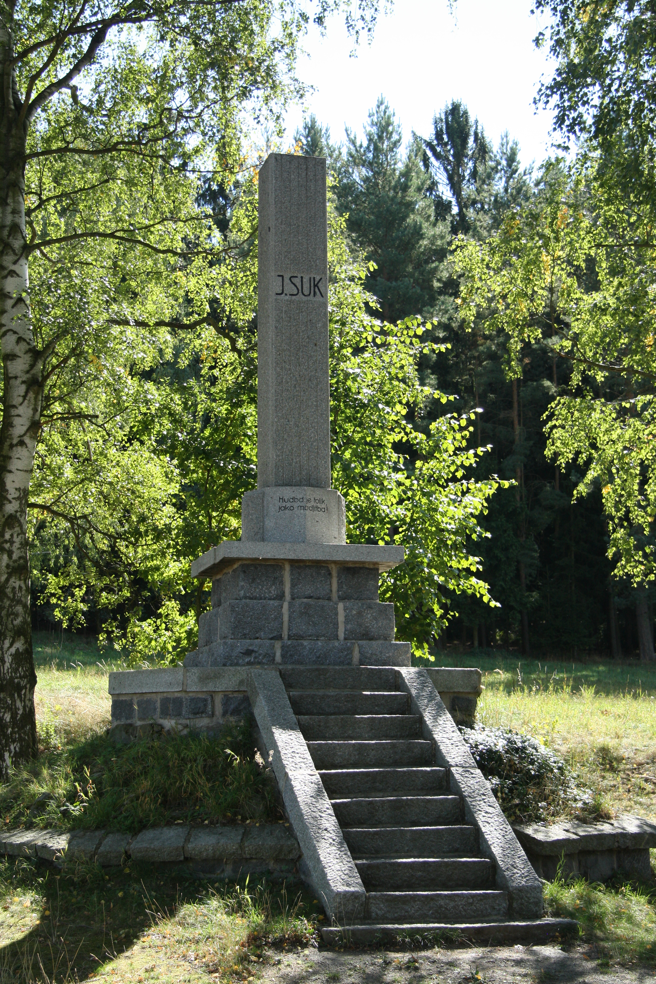 Overview of Josef Suk memorial in Křečovice, Benešov District.